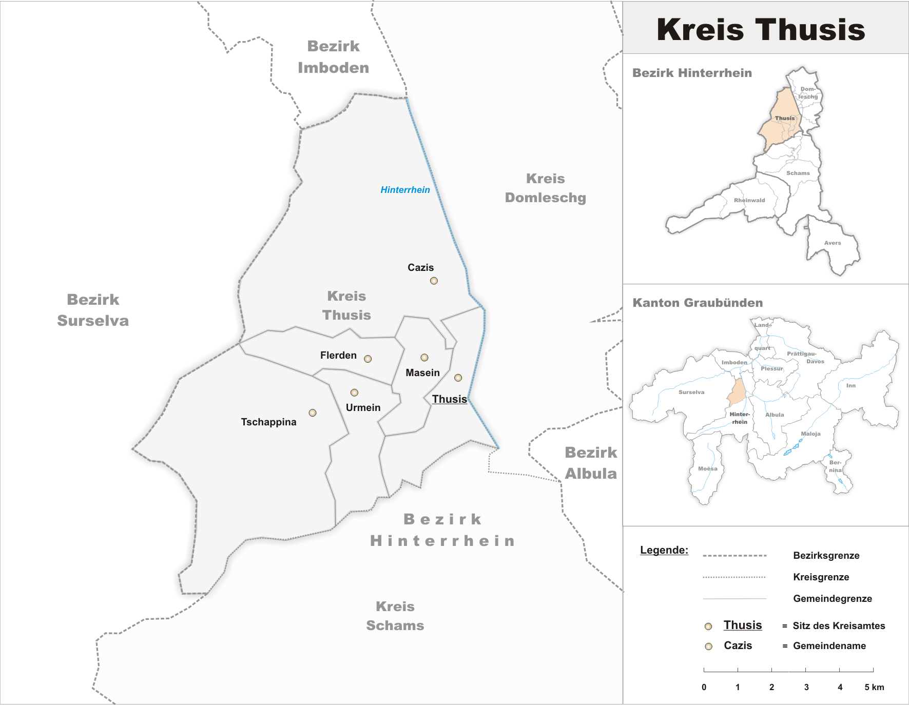 Municipalities in the circle of Thusis